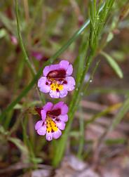 Mimulus filicaulis --- this species is found only at the mid elevations of the Sierra Nevada in Tuolumne and Mariposa counties.